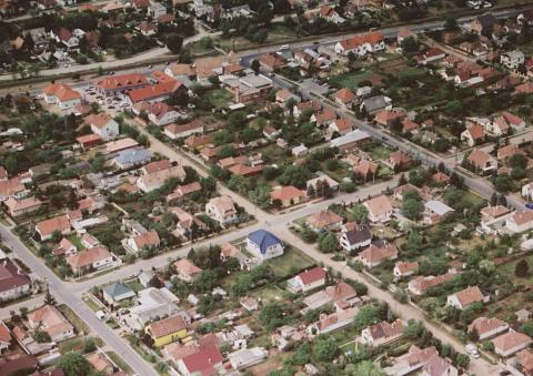 Center of Gyál. - Szent István St., Kőrösi Rd., Táncsics Mihály St. Gyál from northeast, Hungary, aerialphotography